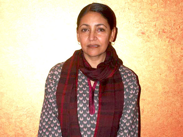 Bollywood actress Deepti Naval at the special screening of her film Memories In March (2011)